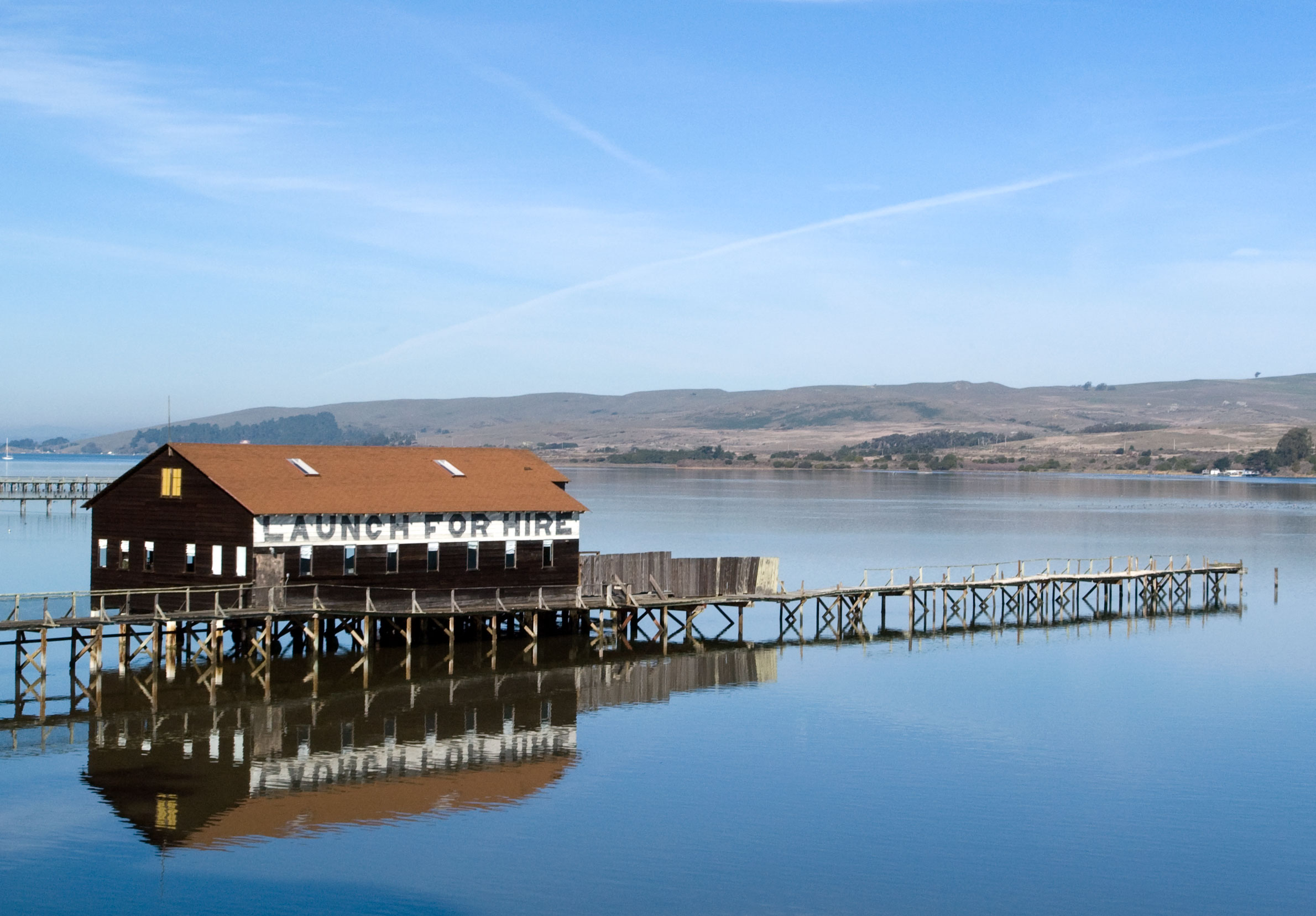 The Brock Schreiber Boathouse on Tomales Bay in the town of Inverness, California (Marin County north of San Francisco) was built by Brock Schreiber in 1913 and was added to the National Register of Historic Places in 1978 as listing #78000702.